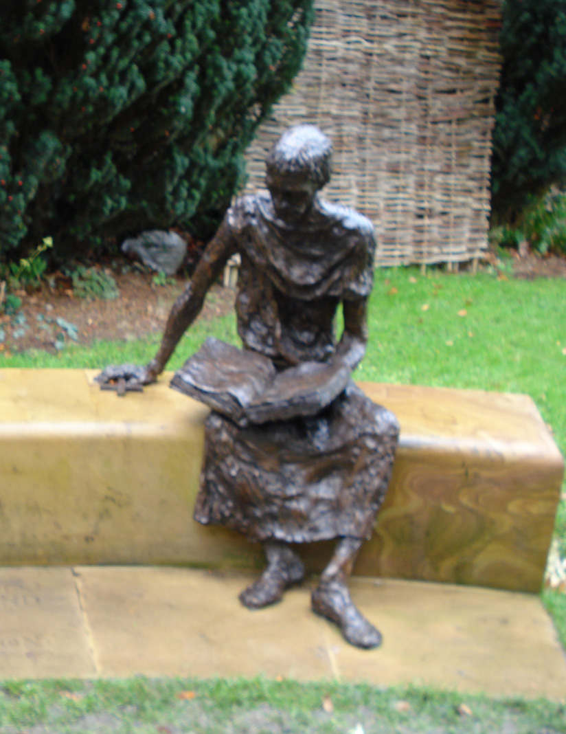 Bronze of St Edmund of Abingdon at St Edmund Hall, Oxford. Cropped version of File:St Edmund of Abingdon bronze.JPG.